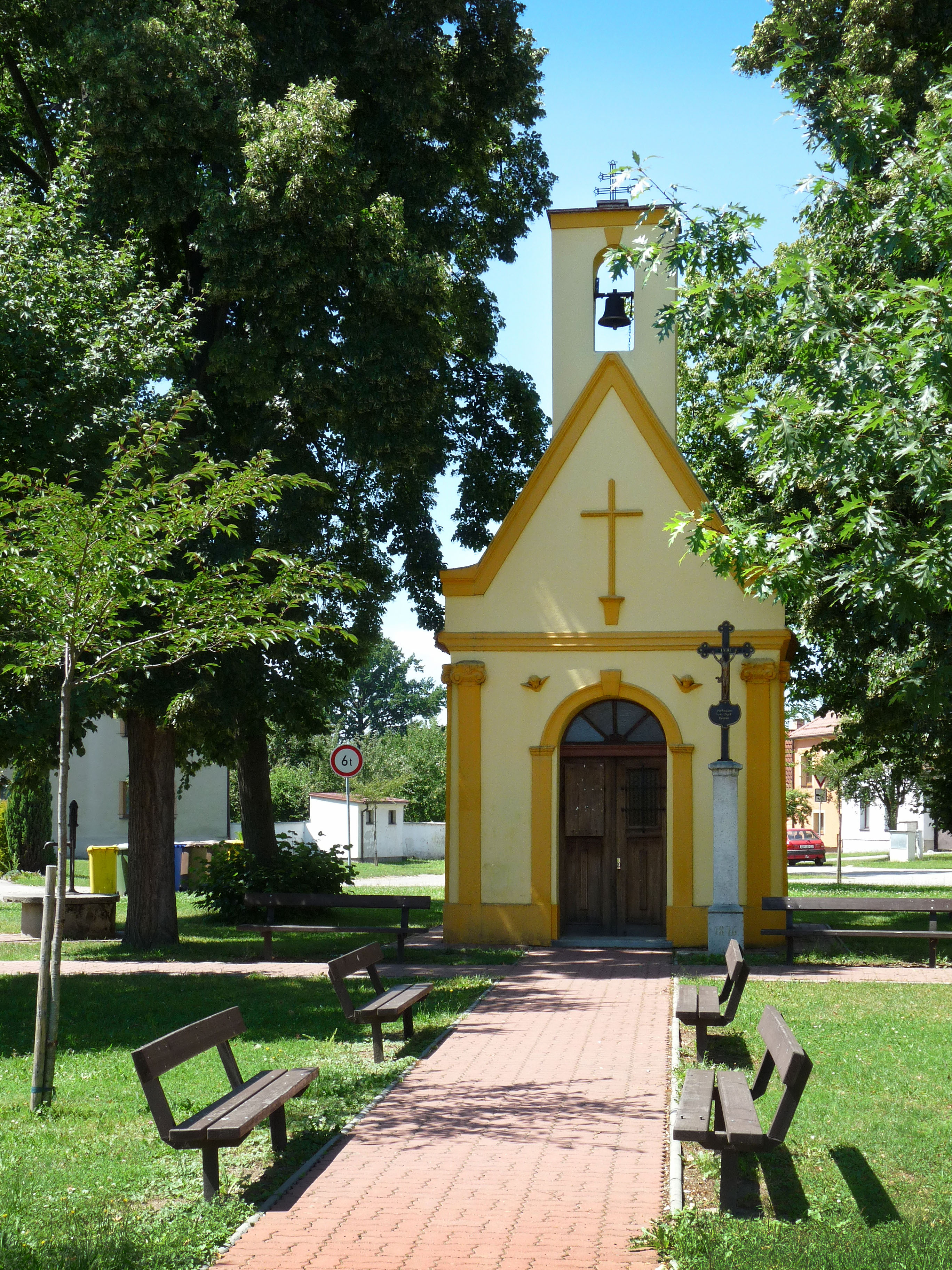 Virgin Mary Chapel the village green, Hrdějovice, České Budějovice District, Czech Republic.